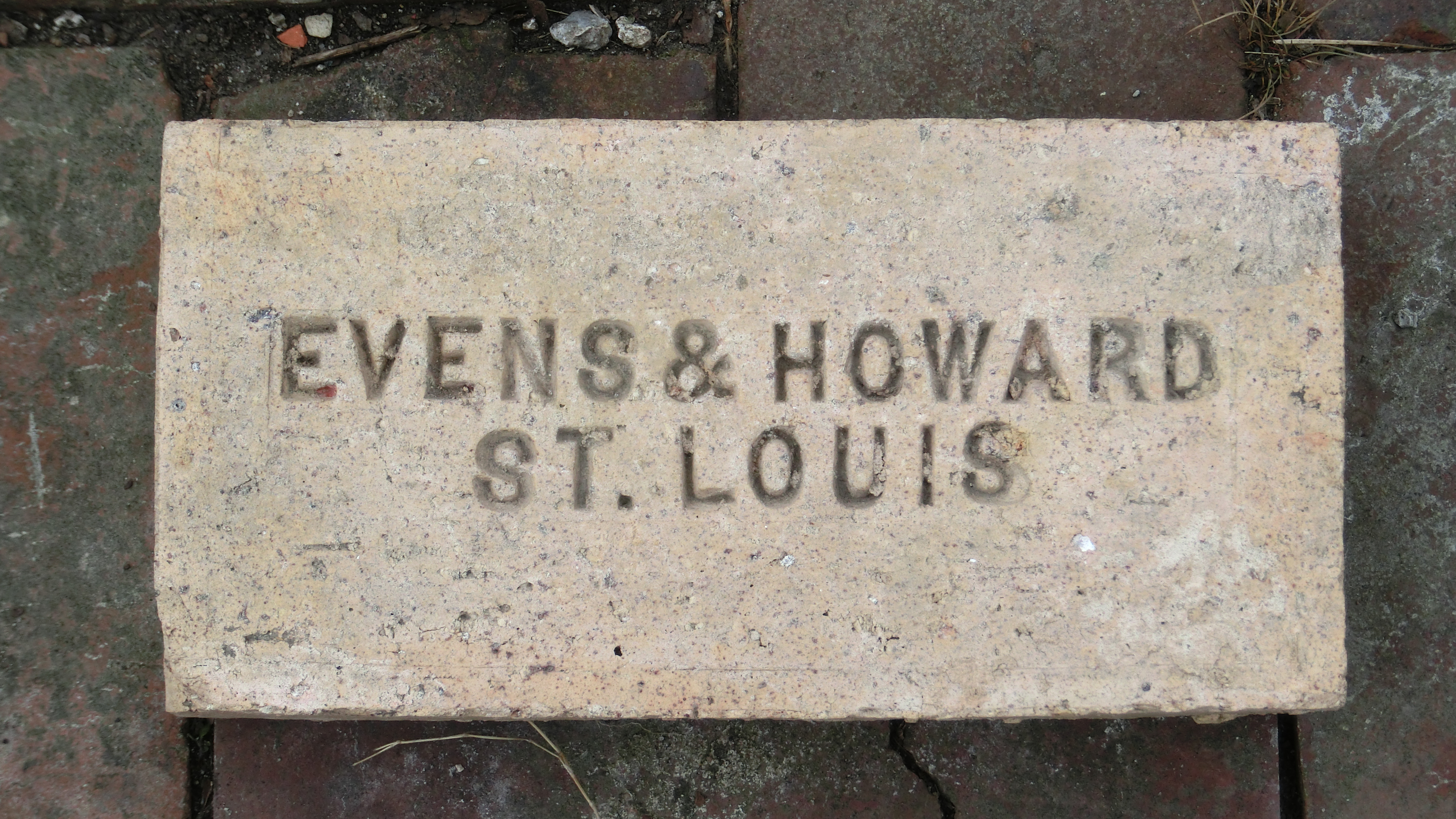 an Evens and Howard fire brick found in Montgomery county illinois. it has very few blemishes or damage compared to the majority of bricks found.